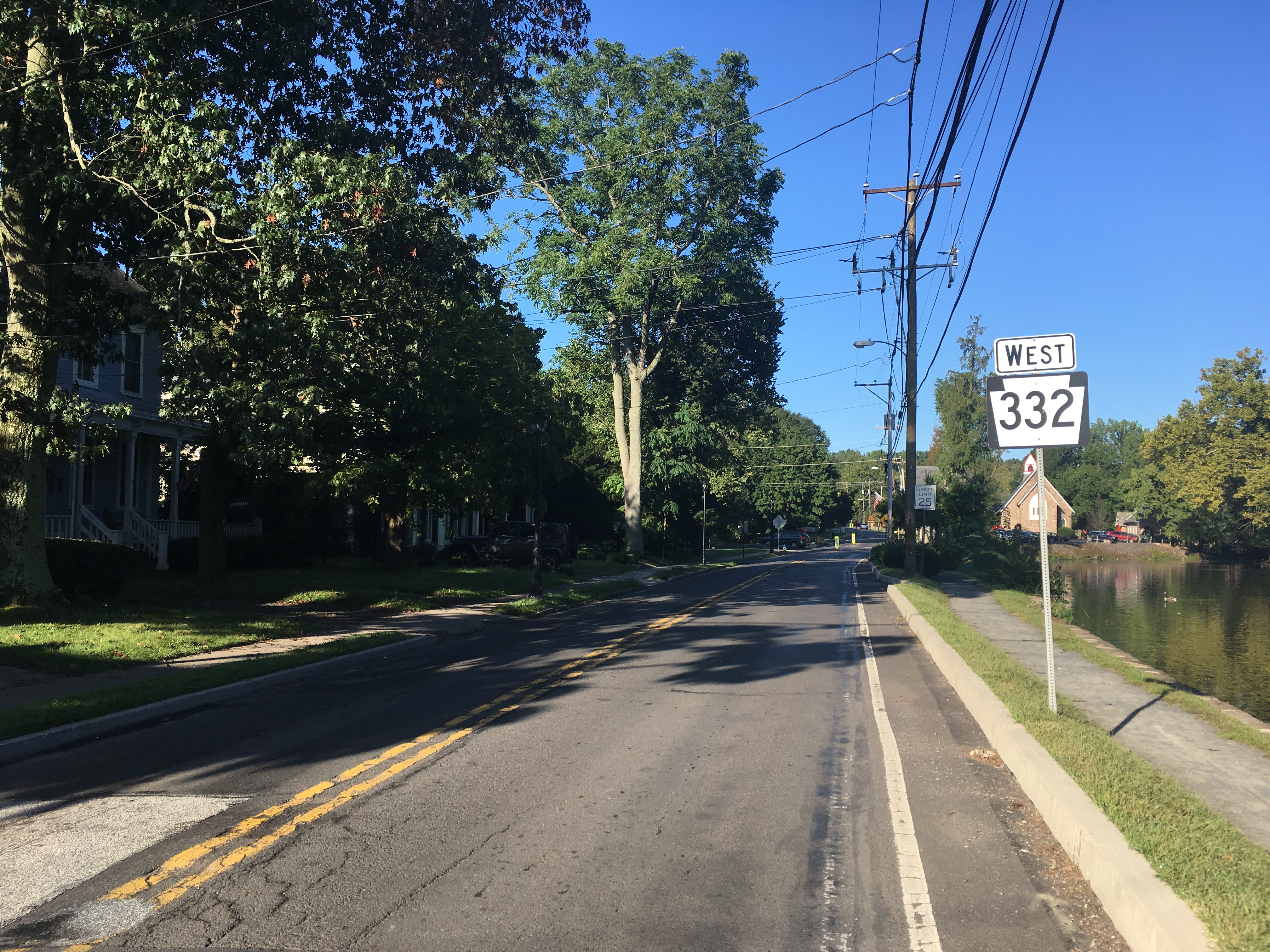 Westbound Pennsylvania Route 332 (Afton Avenue) past the intersection with Main Street in Yardley, Pennsylvania